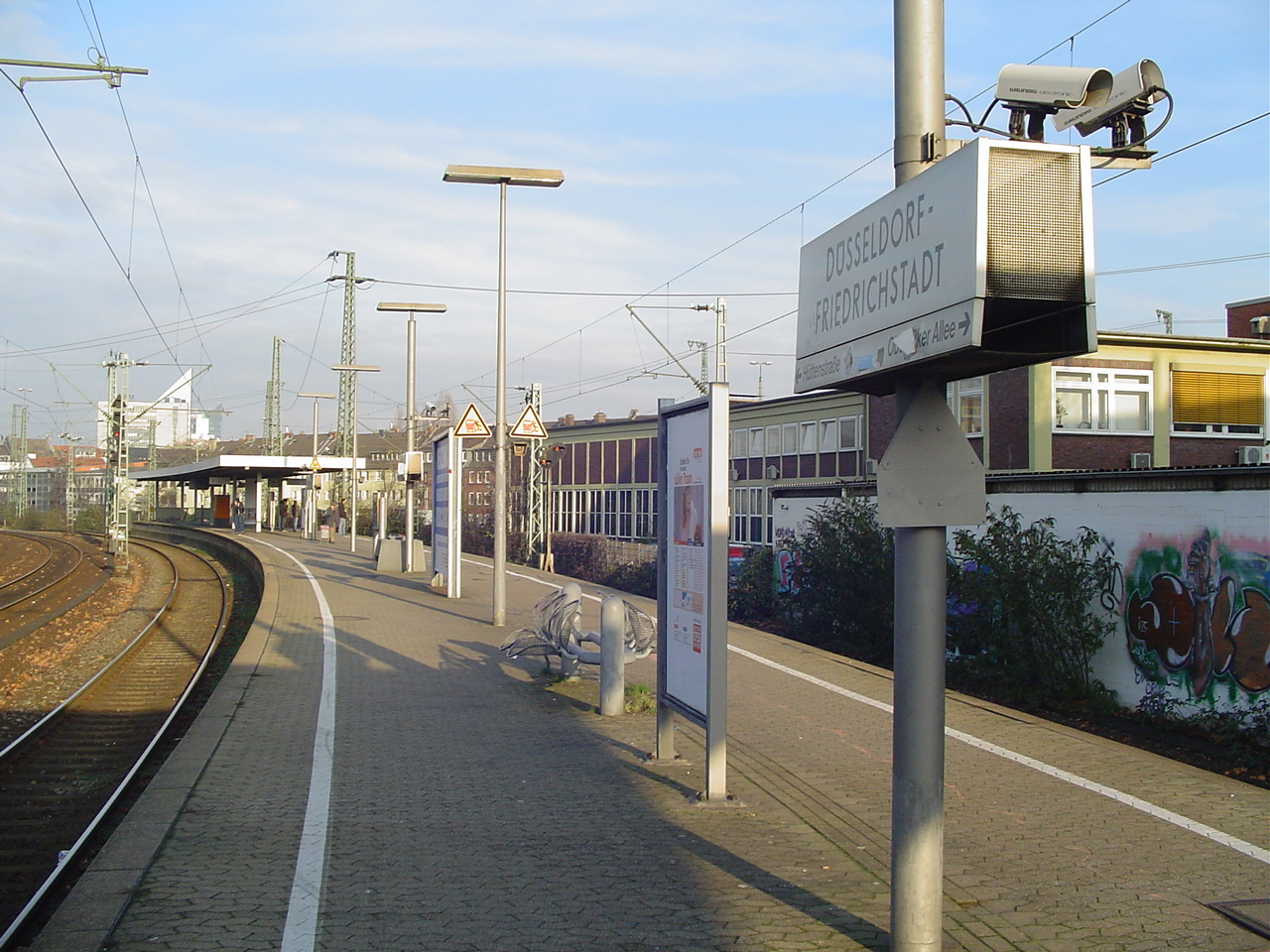 Düsseldorf Friedrichstadt S-Bahn stop, Germany